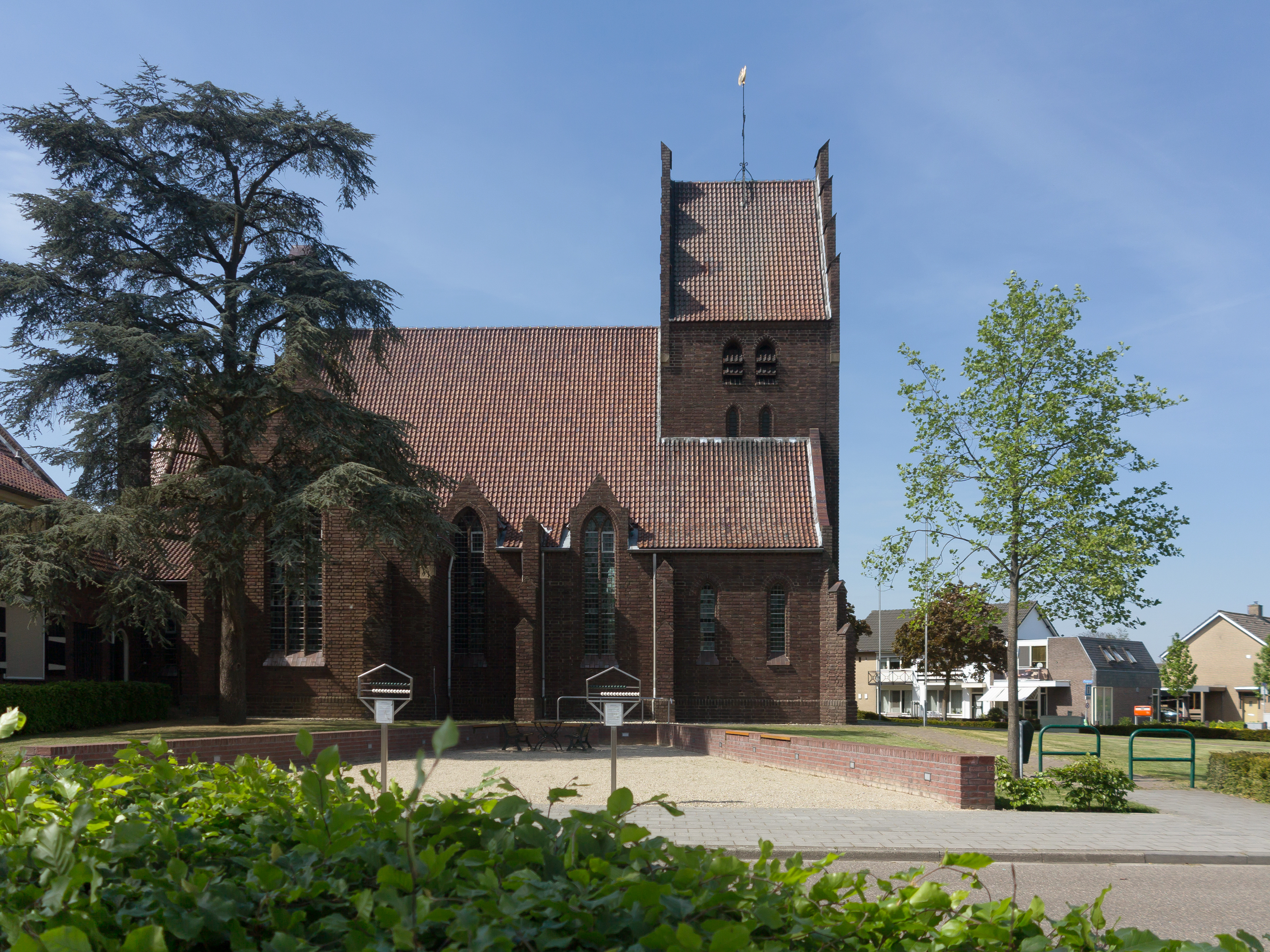 Kronenberg, catholic church: de Sint Theresia kerk